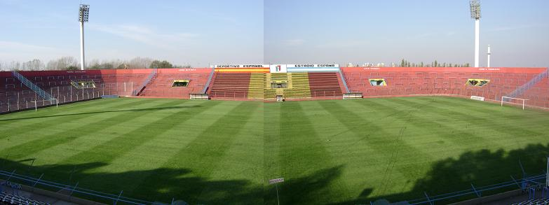 This is an overall view of the Estadio España